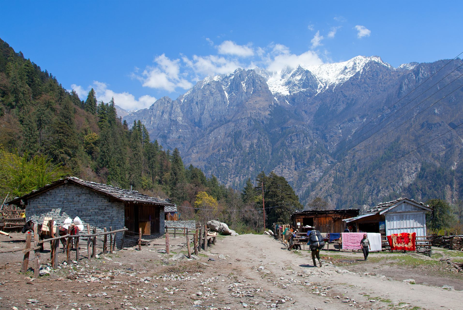 Timang village, Manang district, Nepal